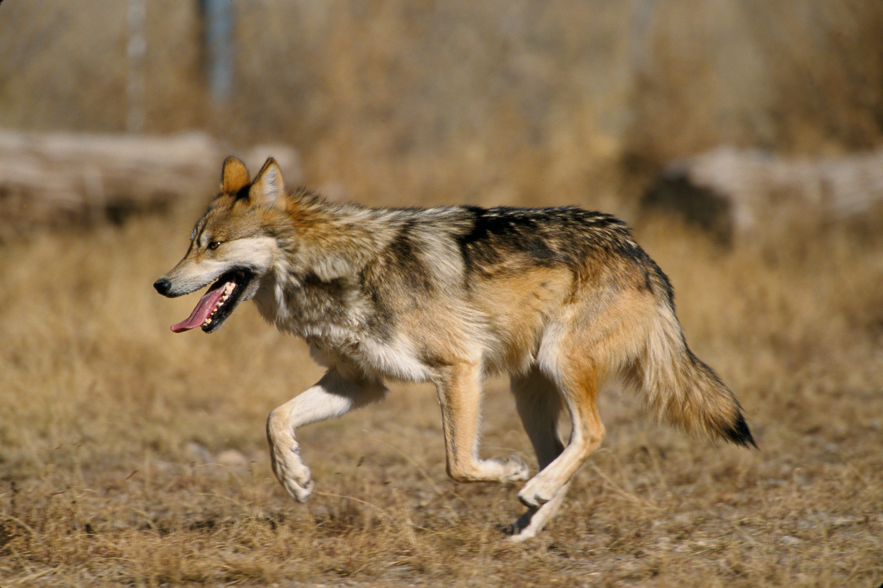 Mexican wolf (Canis lupus baileyi)